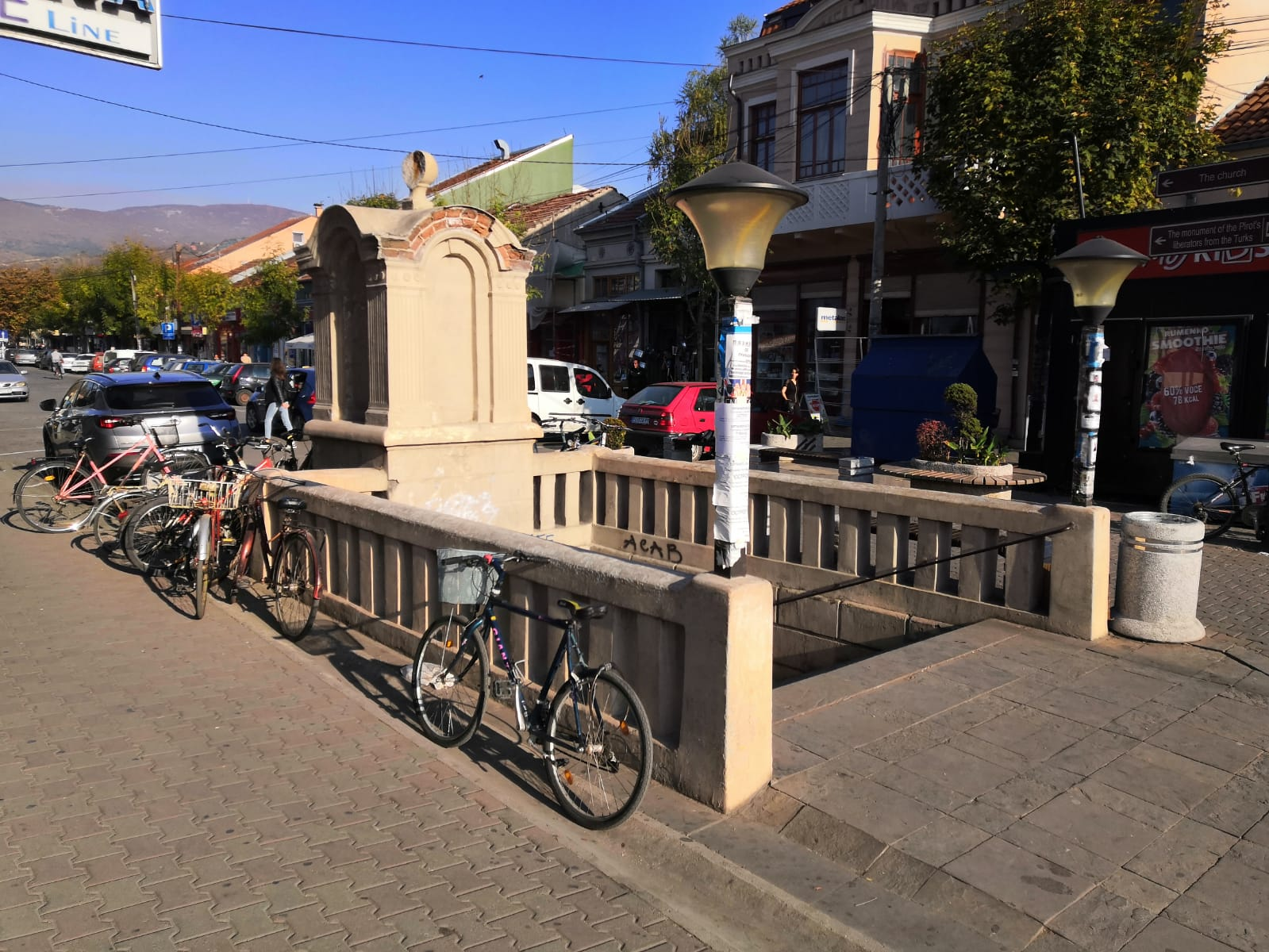 Fountain Guševica in Pirotu, Tijabara